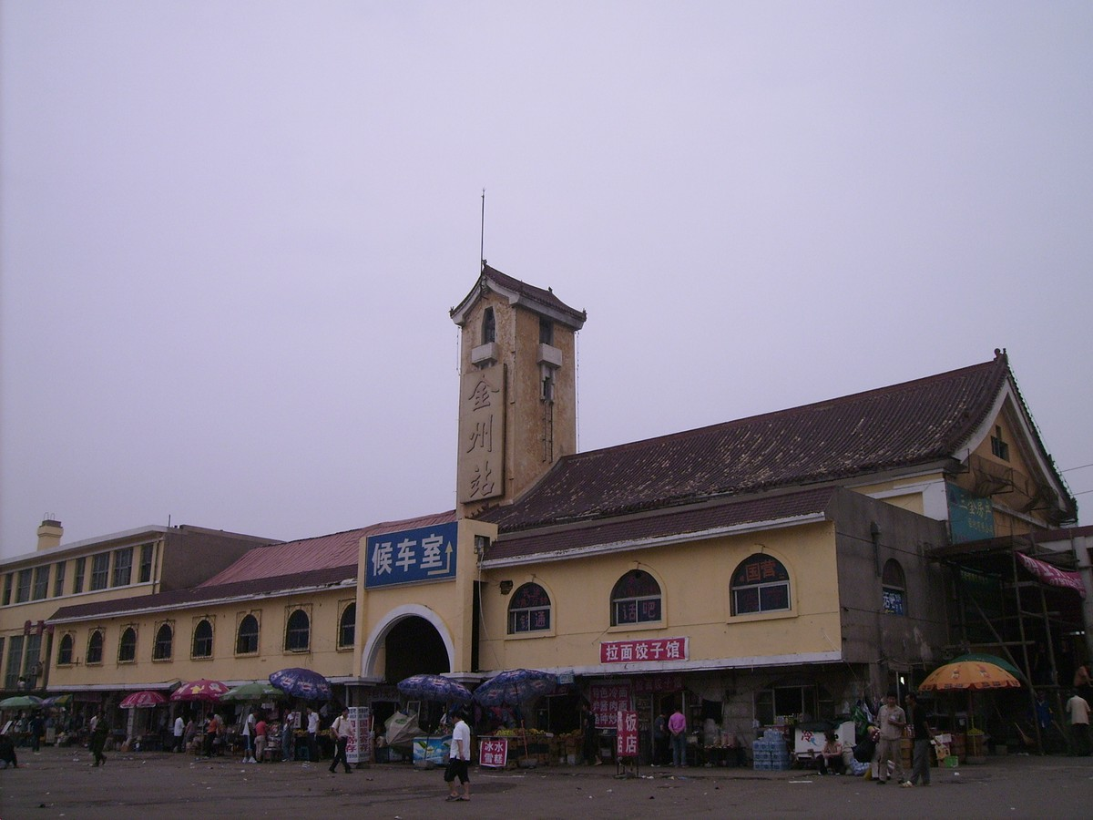 Old building of Jinzhou Railway Station in Dalian, China